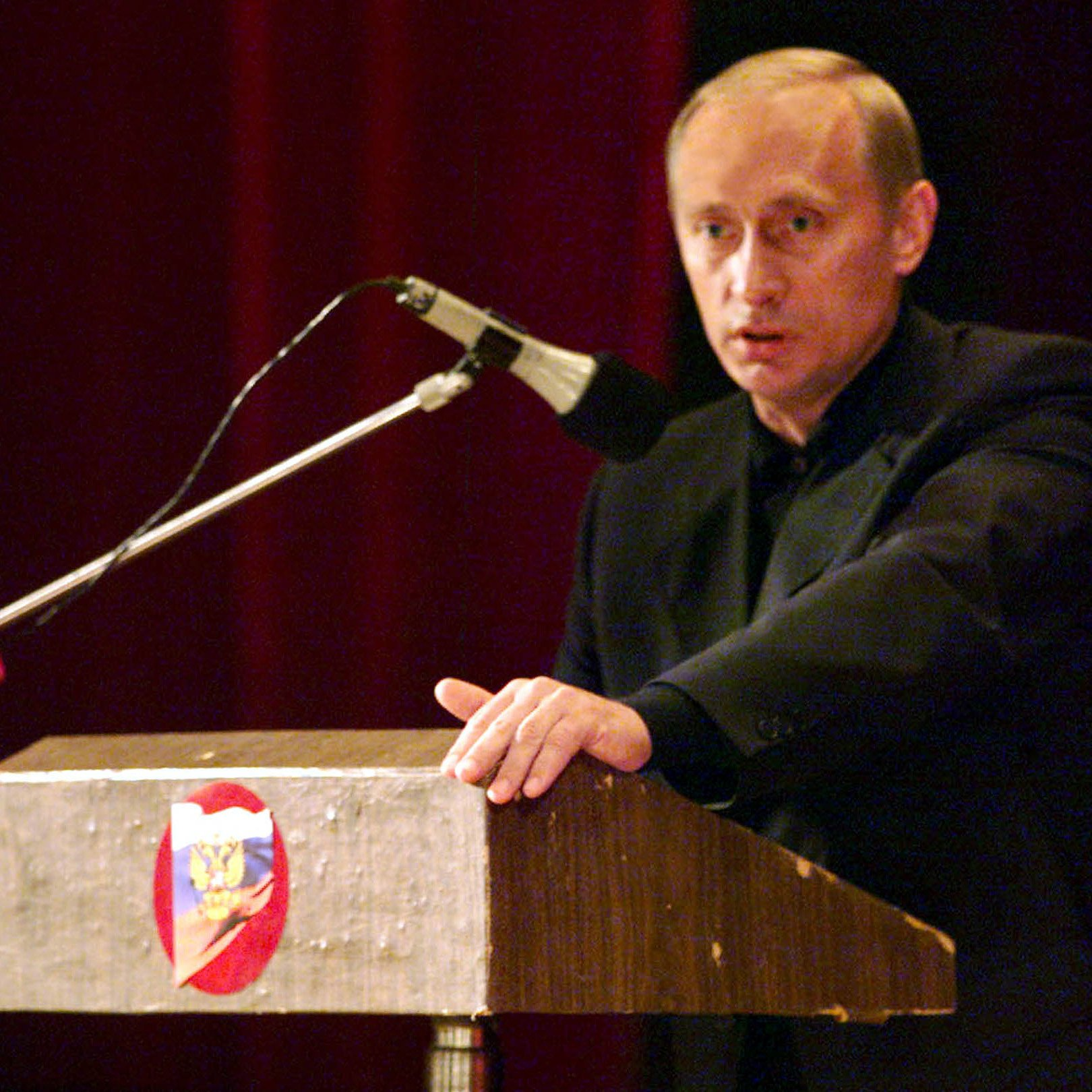 VIDYAYEVO, MURMANSK REGION. At the meeting with relatives of the sailors from the Kursk nuclear submarine.